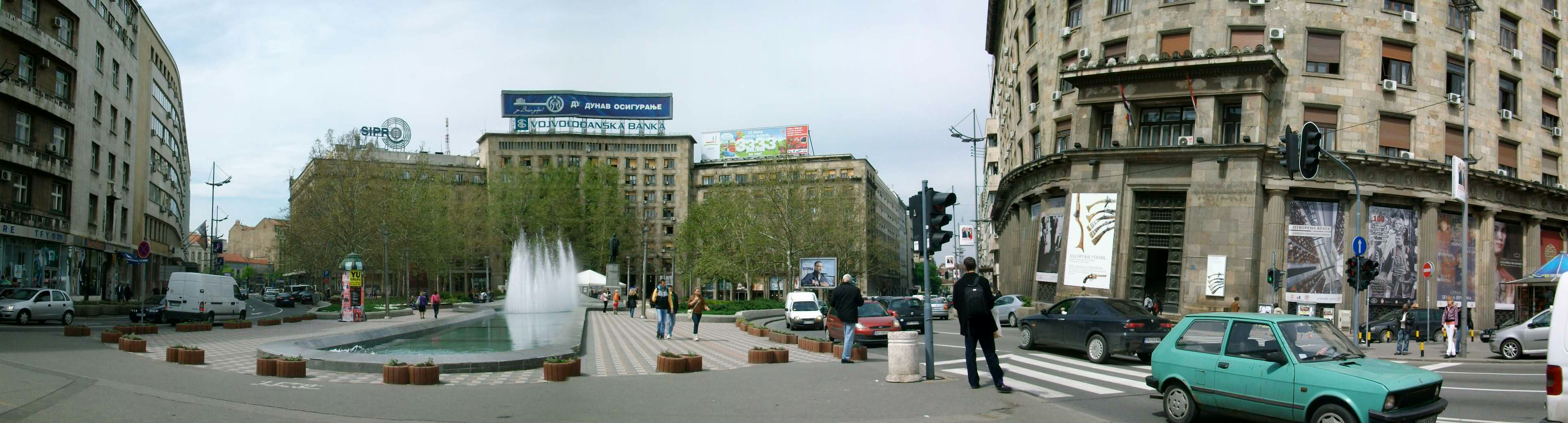 Panoramic view of Nikola Pašić square